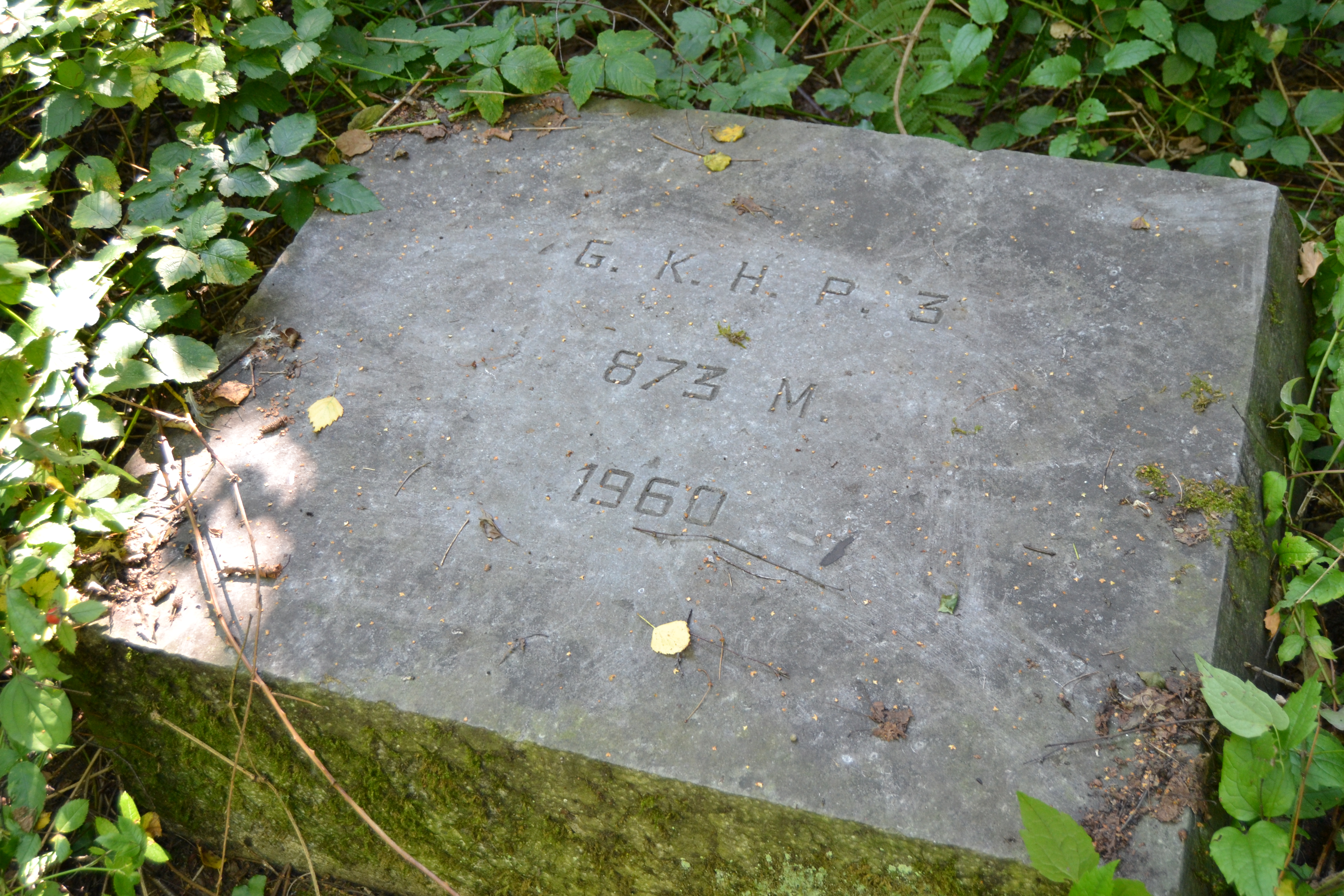 Ancient pit of the Horloz coal mine in Tilleur, Belgium